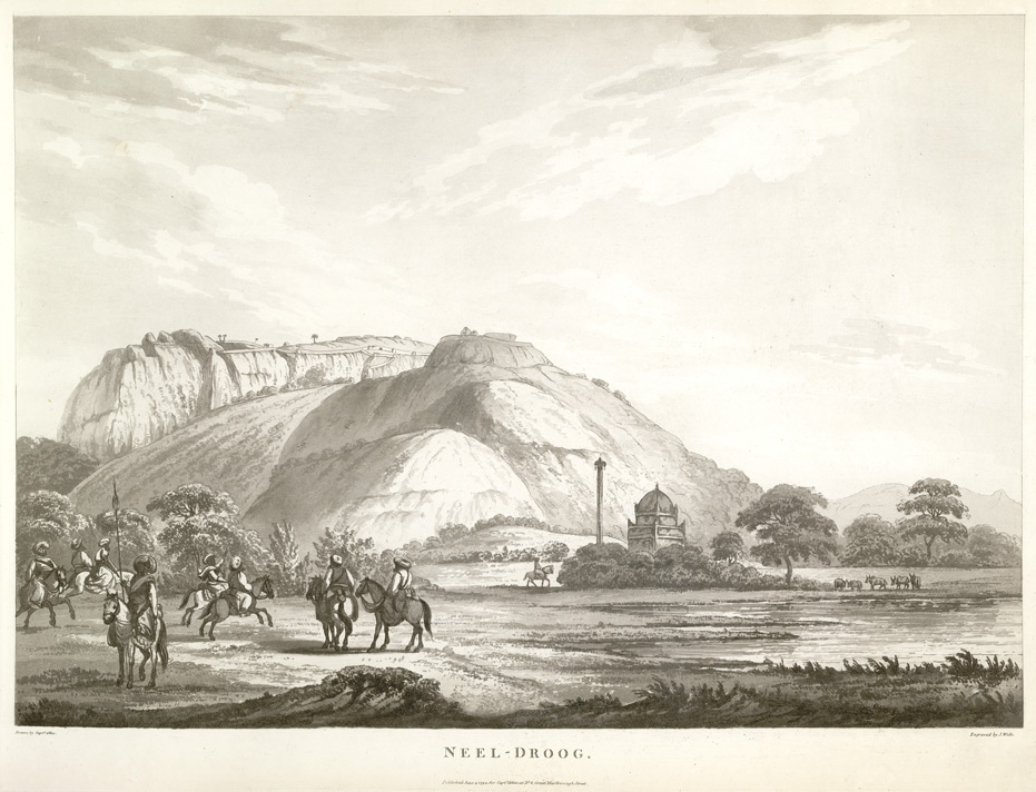 Artist: Allan, Sir Alexander (1764-1820) Medium: Aquatint Date: 1794 This uncoloured aquatint is taken from plate 5 of Captain Alexander Allan's 'Views in the Mysore Country'. The fort of Nilagiridurg, three miles from Anchettidurg in Tamil Nadu, surrendered to a British battalion in July 1792. Allan wrote: "This place, though respectable in itself in point of strength, yet not forming a part of the chain of posts then intended to be established, was dismantled during the stay of the army in that vicinity." Alexander Allan, then a Lieutenant in the Madras Native Infantry, was not unusual in serving as a surveyor and skilled amateur artist during the third Anglo-Mysore war. Many soldiers were accomplished draughtsmen in the 18th century, recording and detailing the sites of conflict. Allan was fluent in Persian and served in the fourth and final war, even being appointed to carry the flag of truce to Mysore-leader Tipu's palace if he surrendered. In the event he was with David Baird when Tipu's body was found. He later became a director of the East India Company.